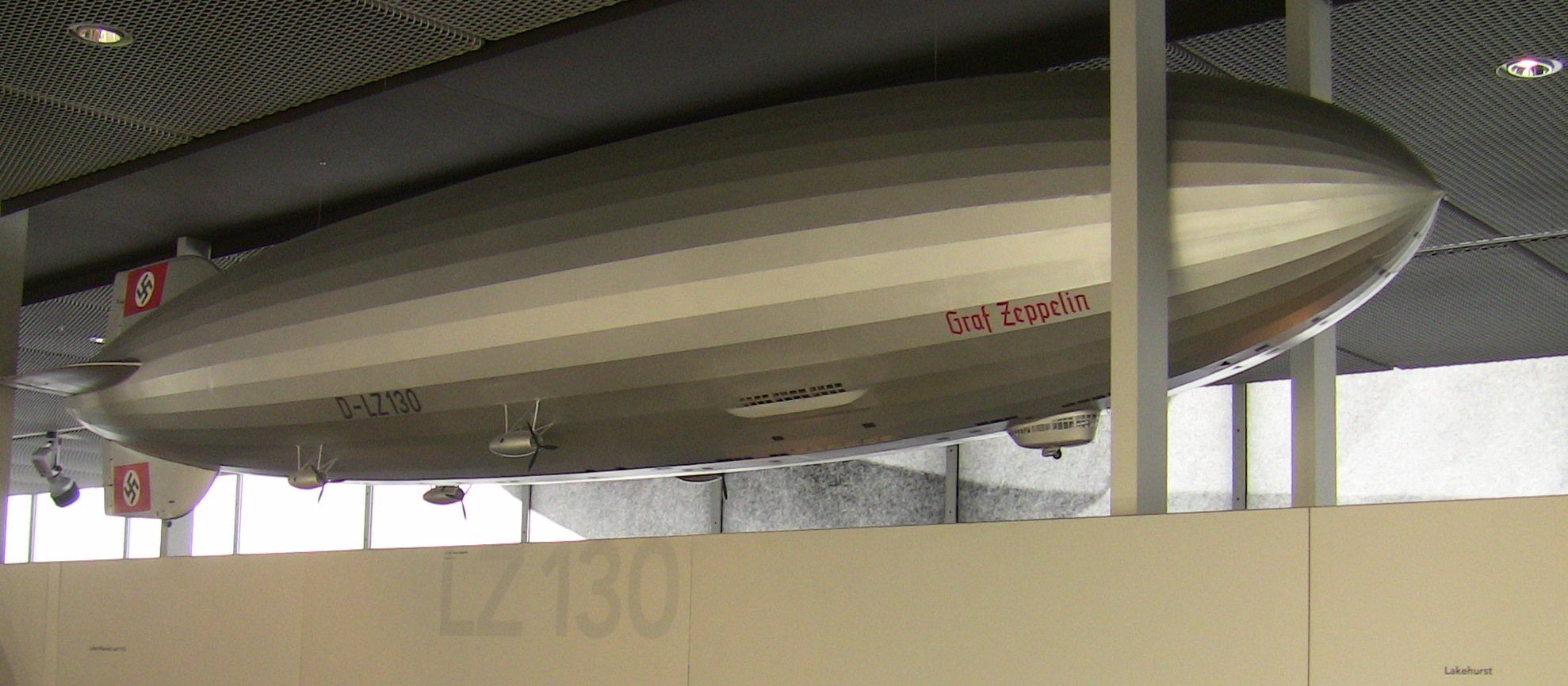 Model reconstruction of LZ 130 "Graf Zeppelin" (II) at Zeppelin Museum, Friedrichshafen, Germany